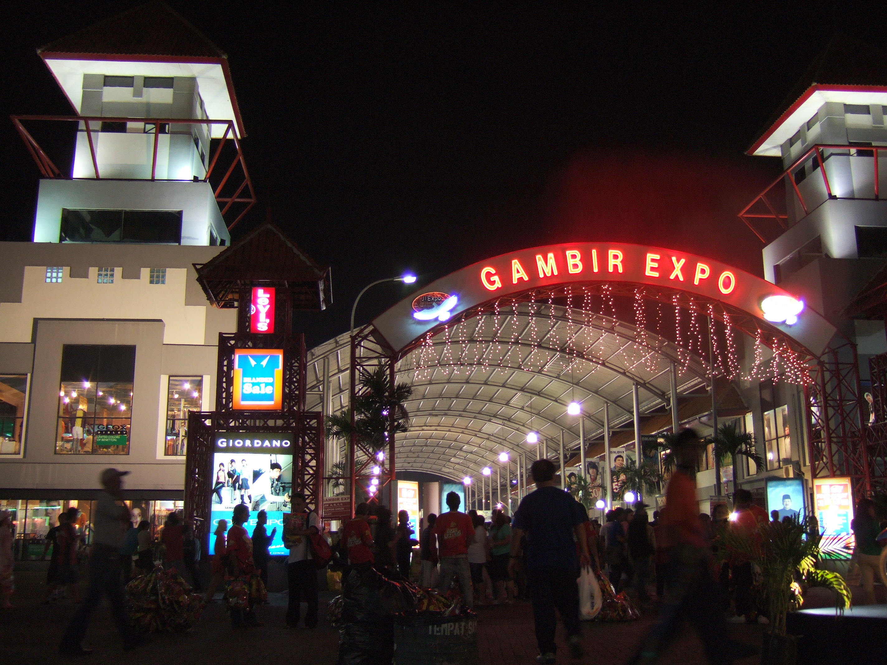 Jakarta Fair arena 2007